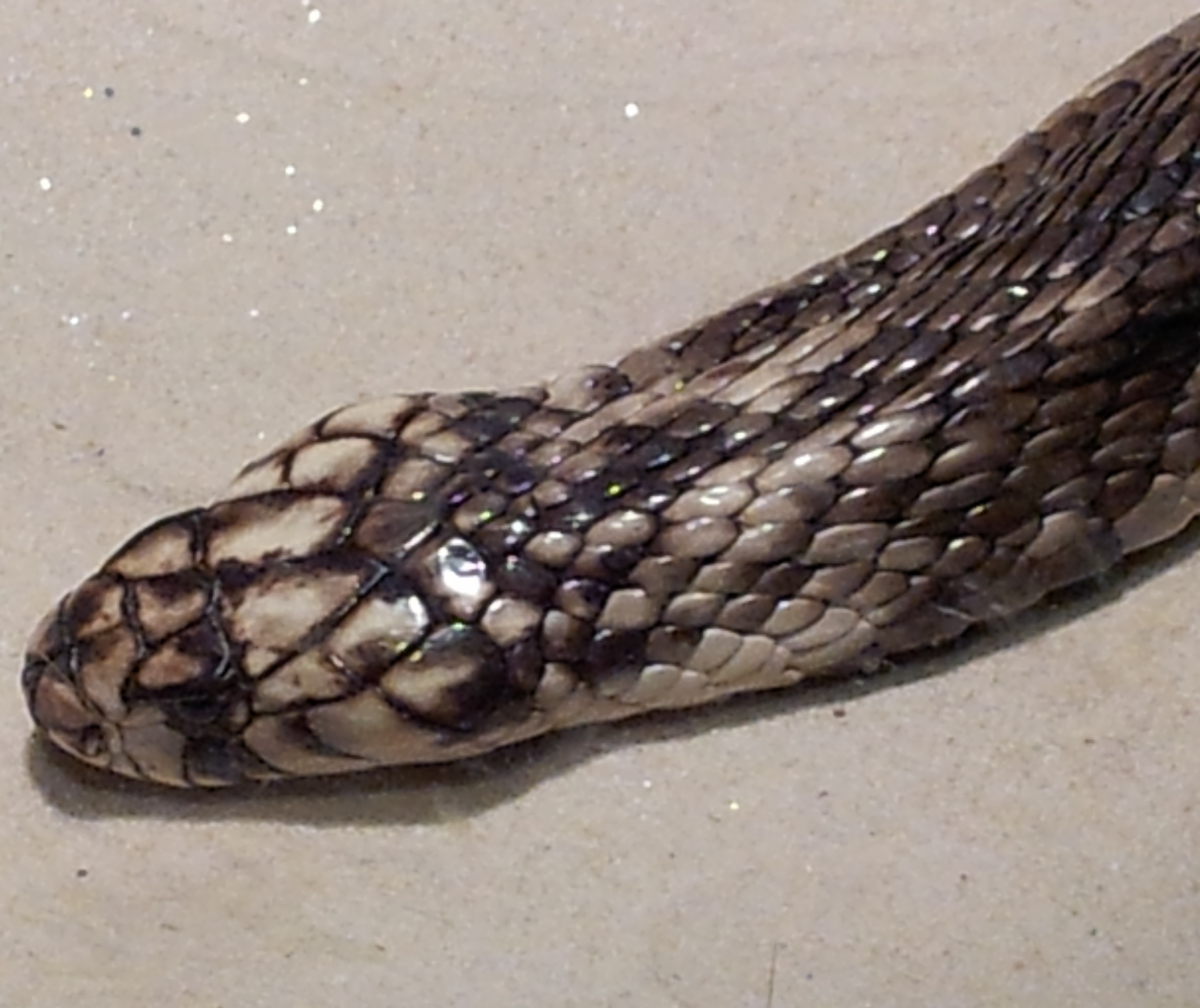 Egyptian cobta at Jacksonville Zoo and Gardens.